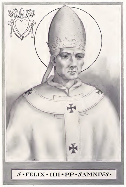 This illustration is from The Lives and Times of the Popes by Chevalier Artaud de Montor, New York: The Catholic Publication Society of America, 1911. It was originally published in 1842.